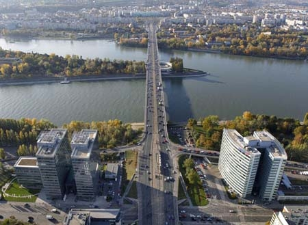 Angyalföld, Budapest, district XIII, Hungary, aerial photography